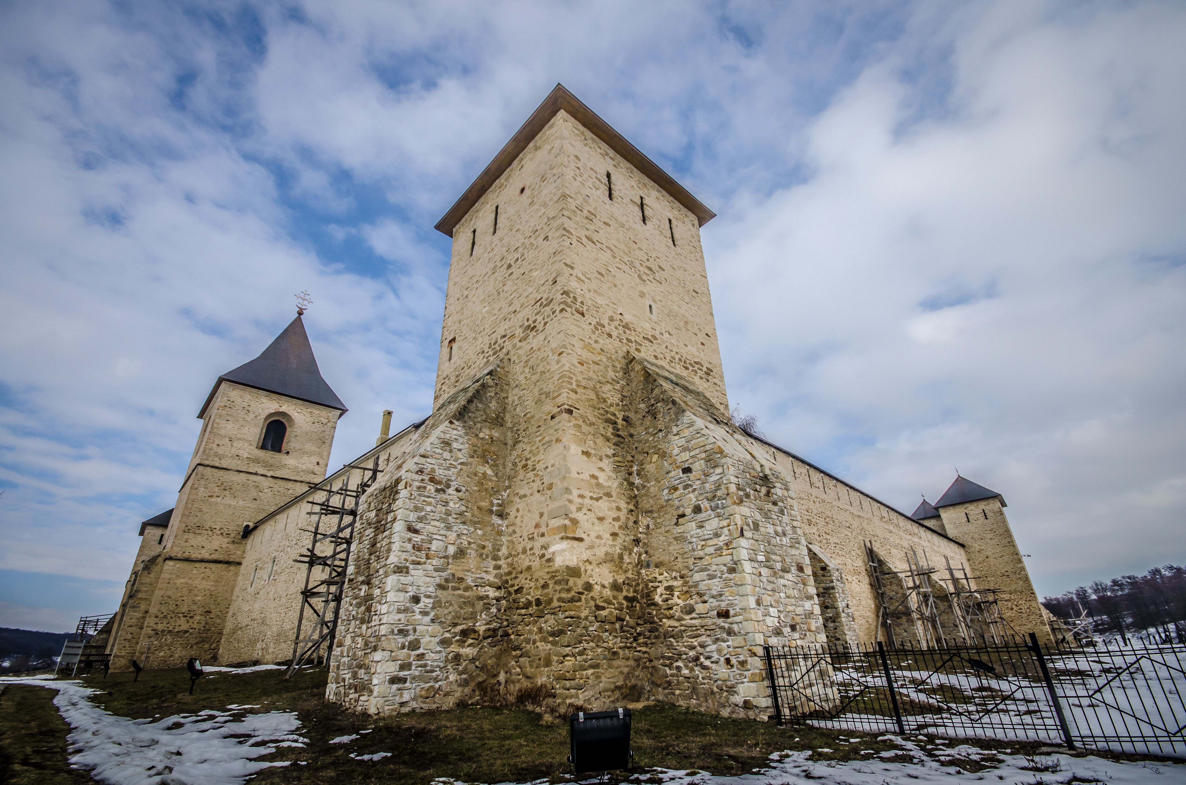 Outside view of the defence walls